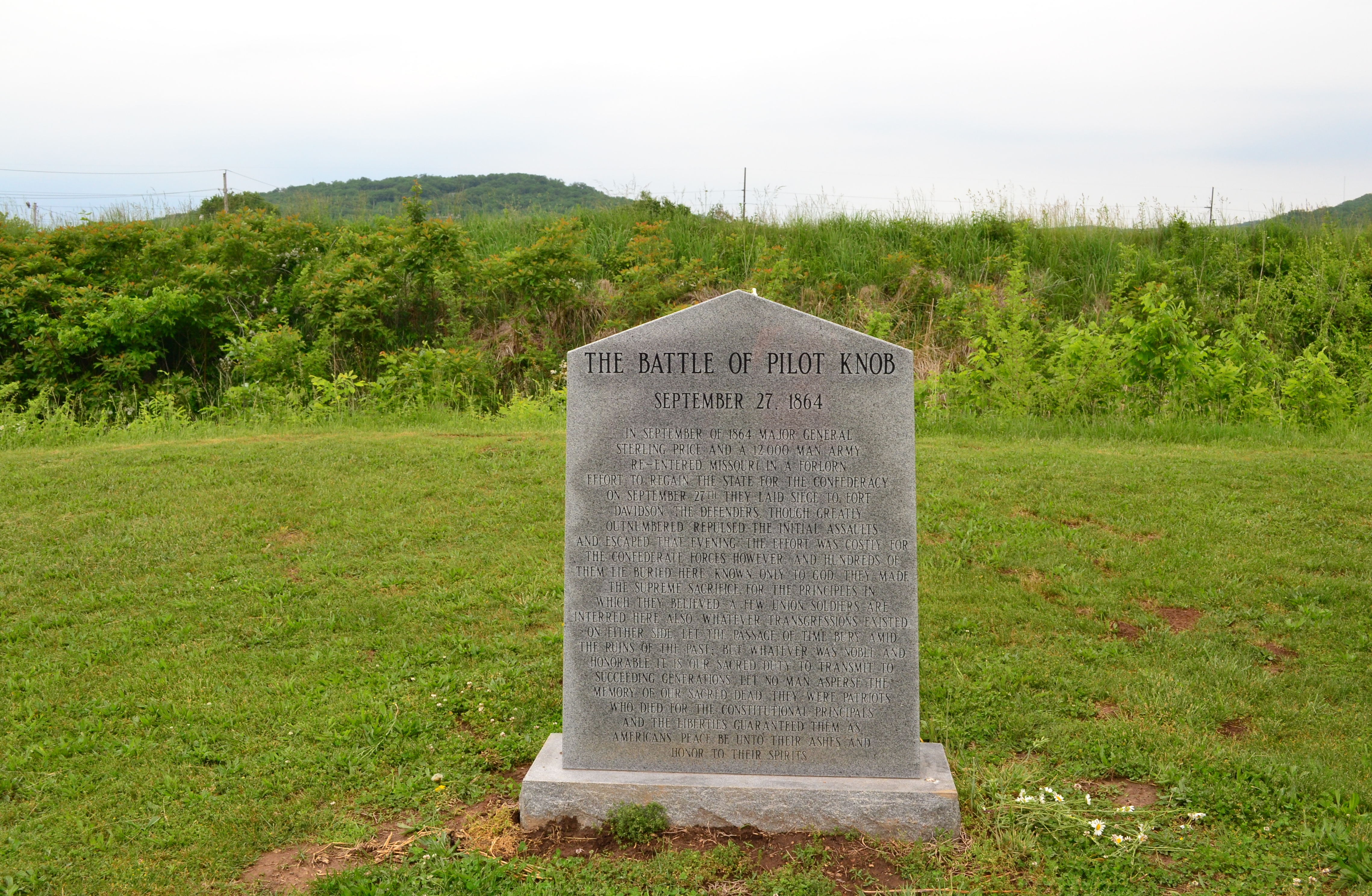 A stone memorial monument at Fort Davidson in Missouri. The earthen rampart of the fort's ruins is behind the monument.